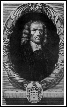 Henry More, English Platonist philosopher